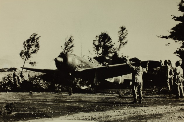 PictionID:6485578 - Catalog:01_00086181 - Title:Nakajima, Ki-43, Hayabusa 'Peregrine Falcon' Oscar 'Jim' Army Type 1 Fighter - Filename:01_00086181.TIF - Image from the Charles Daniels Photo Collection album "Seversky, Republic and P-47"----PLEASE TAG this image with any information you know about it, so that we can permanently store this data with the original image file in our Digital Asset Management System.----SOURCE INSTITUTION: San Diego Air and Space Museum Archive